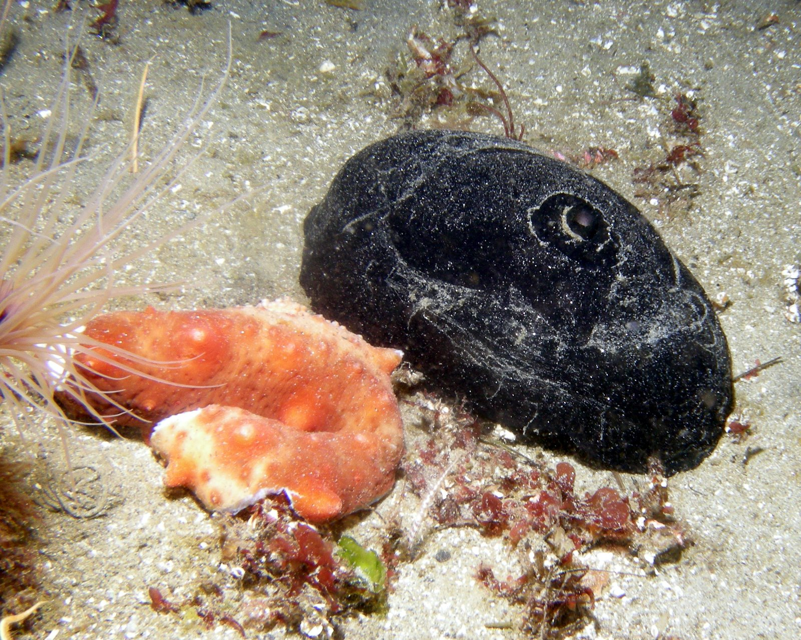 Megathura crenulata (the black on the right) and probably warty sea cucumber Apostichopus parvimensis.